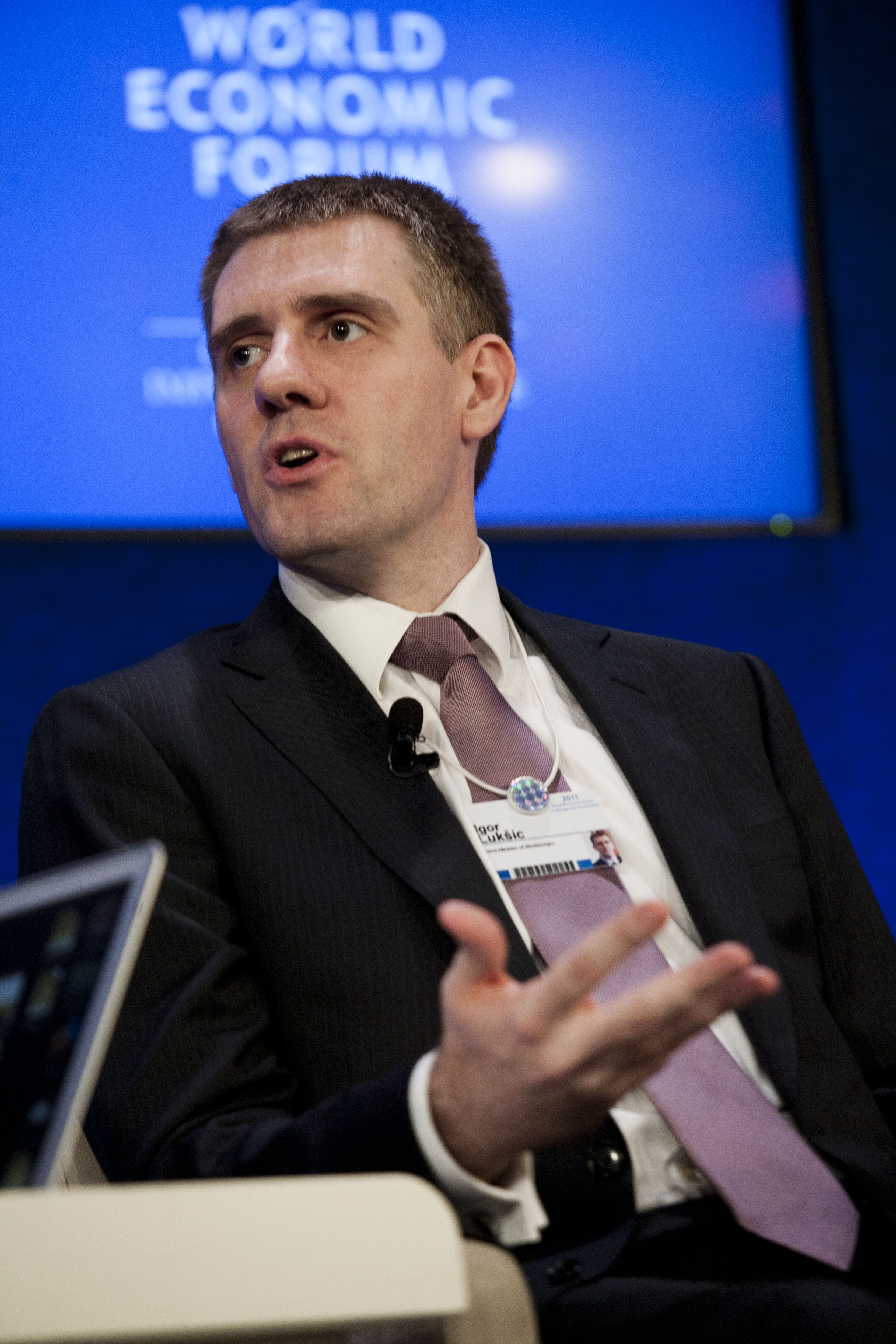 VIENNA/AUSTRIA, 8JUN11 - Igor Lukšic, Prime Minister of Montenegro at the World Economic Forum on Europe and Central Asia held in Vienna, Austria, June 8, 2011. Copyright World Economic Forum/Photo by Benedikt Loebell